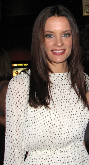 Gina Holden (Joyce) attending the Saw 3D premiere at the Mann's Chinese 6 theater in Hollywood, CA.